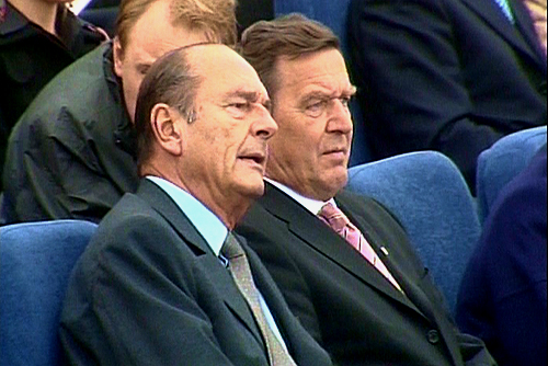 ST PETERSBURG. French President Jacques Chirac (left) and German Federal Chancellor Gerhard Schroeder at the opening of the Water Festival on the Neva River.